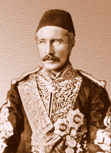 General Charles George Gordon Pasha, Khartoum, Sudan